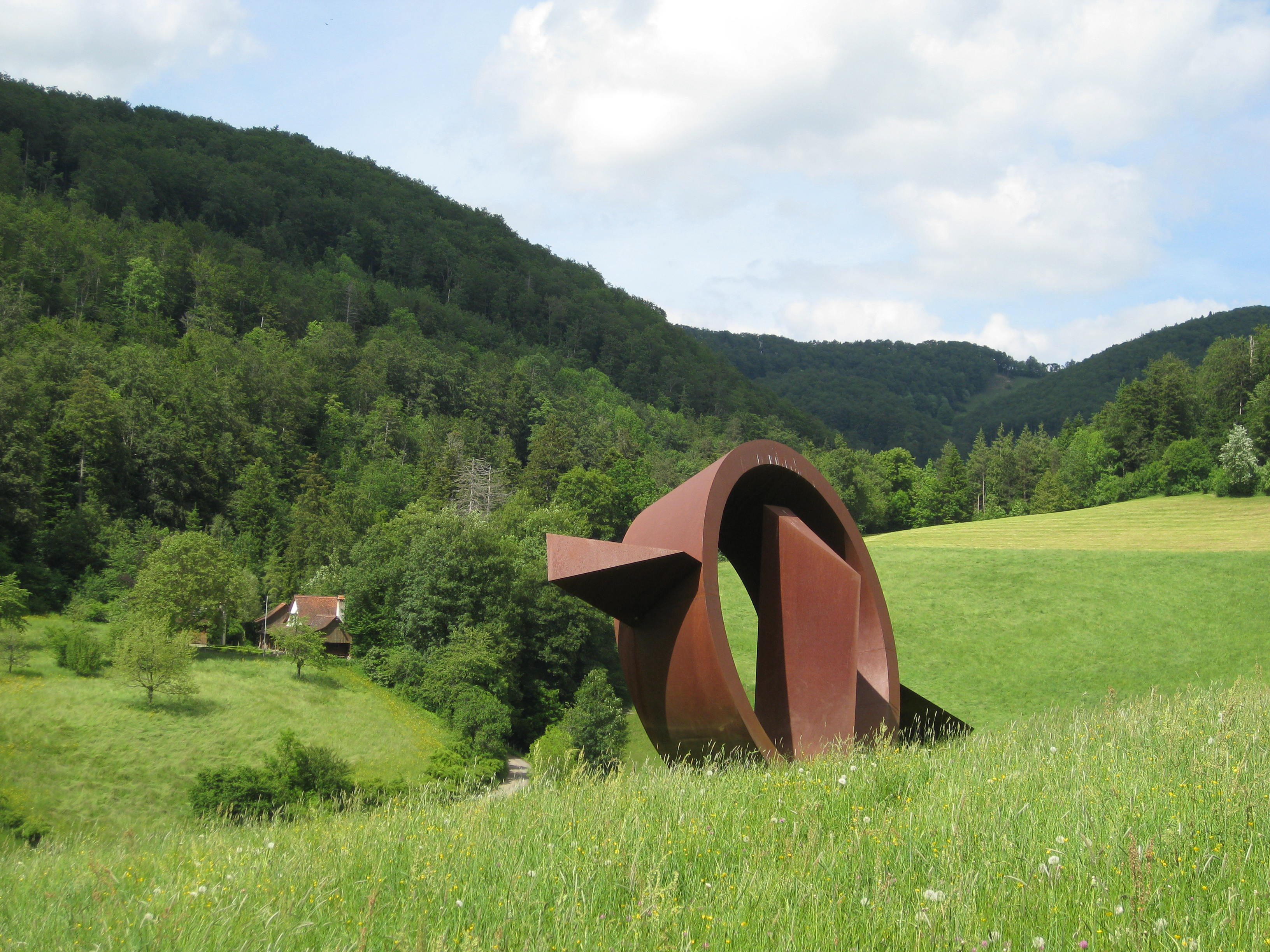 Sculpture at Schoenthal - Nigel Hall, Soglio, 1994